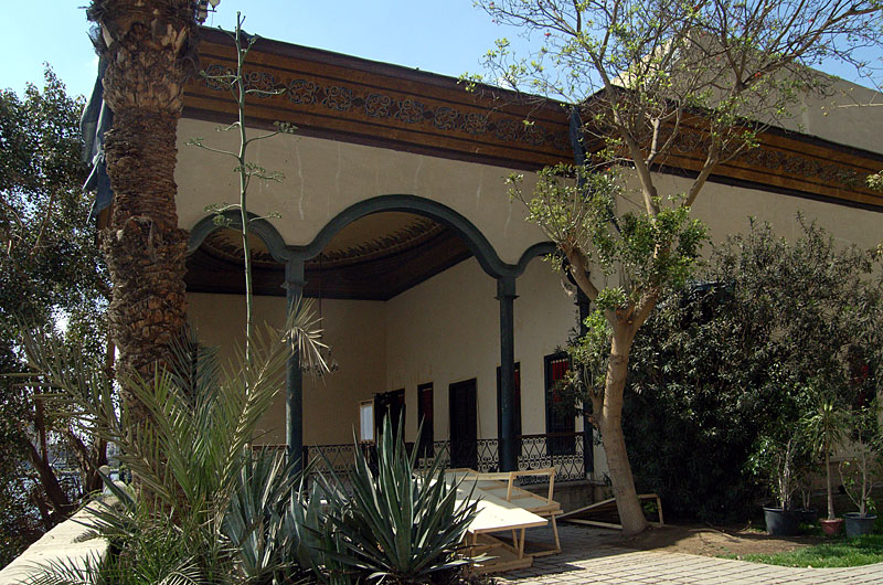 North-east corner of the Manastirli palace, Roda island, Cairo, Egypt